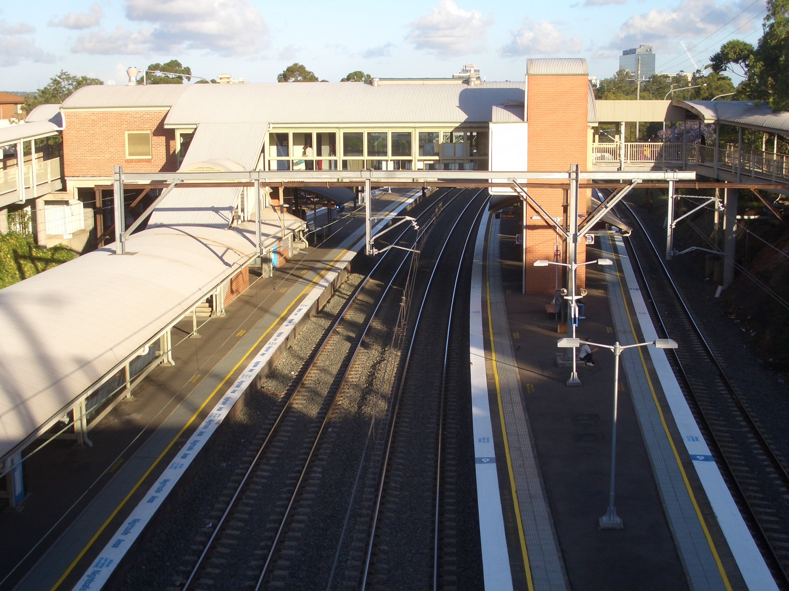 Westmead Railway Station